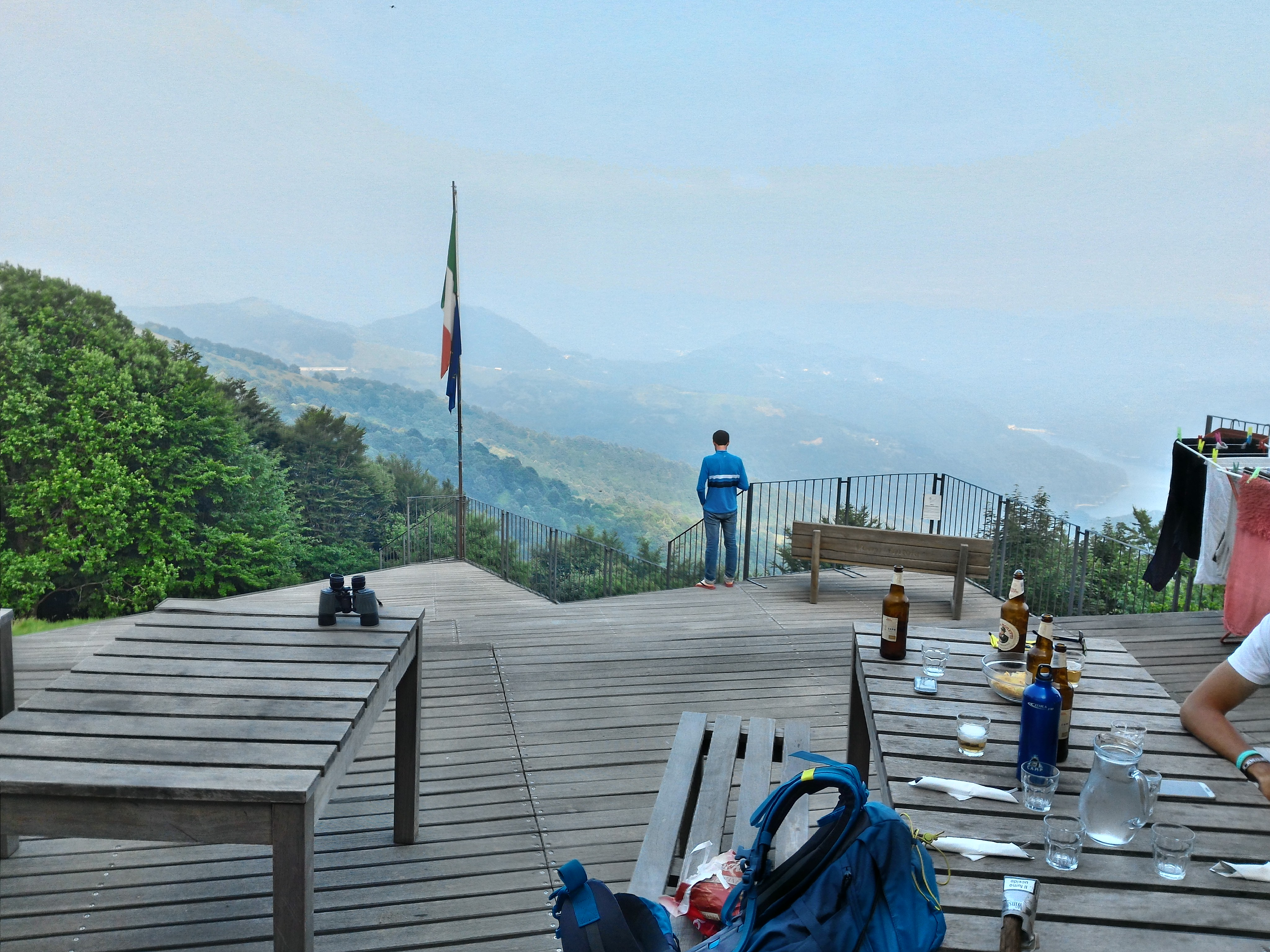 Panorama view from Rifugio Parco Antola